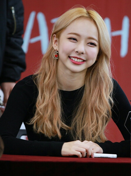 Vivi at Gimpo Fansigning on November 04, 2017.